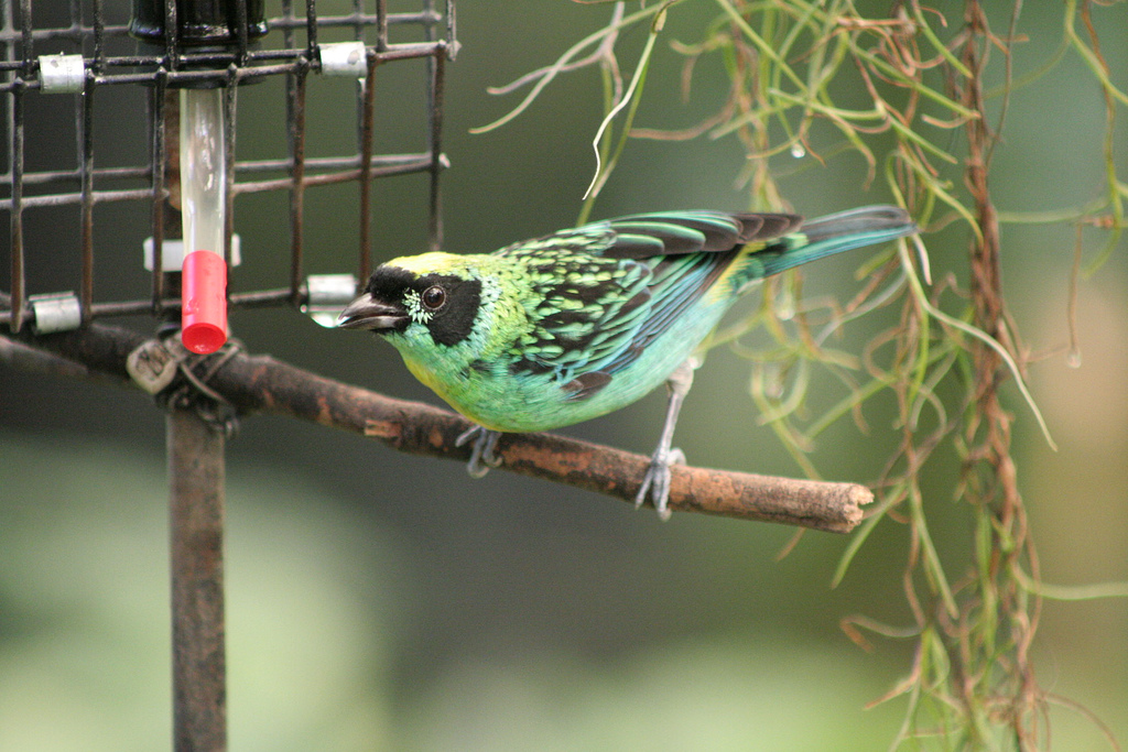 Green-and-Gold Tanager (Tangara schrankii)